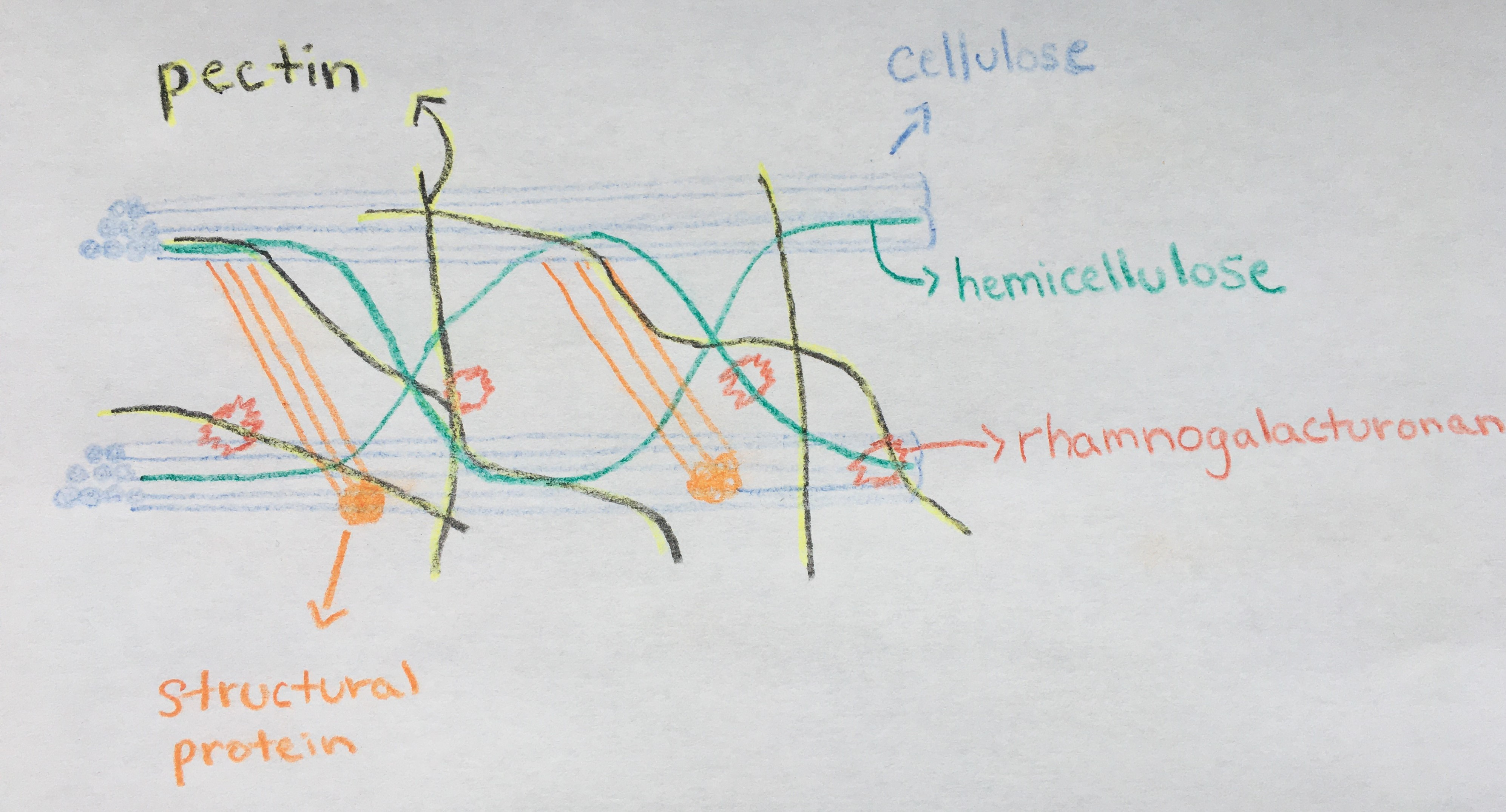 This image demonstrates the interaction between hemicellulose and cellulose where hemicellulose provides a cross-linking support system for cellulose and fills the voids to produce the strongest cell wall.